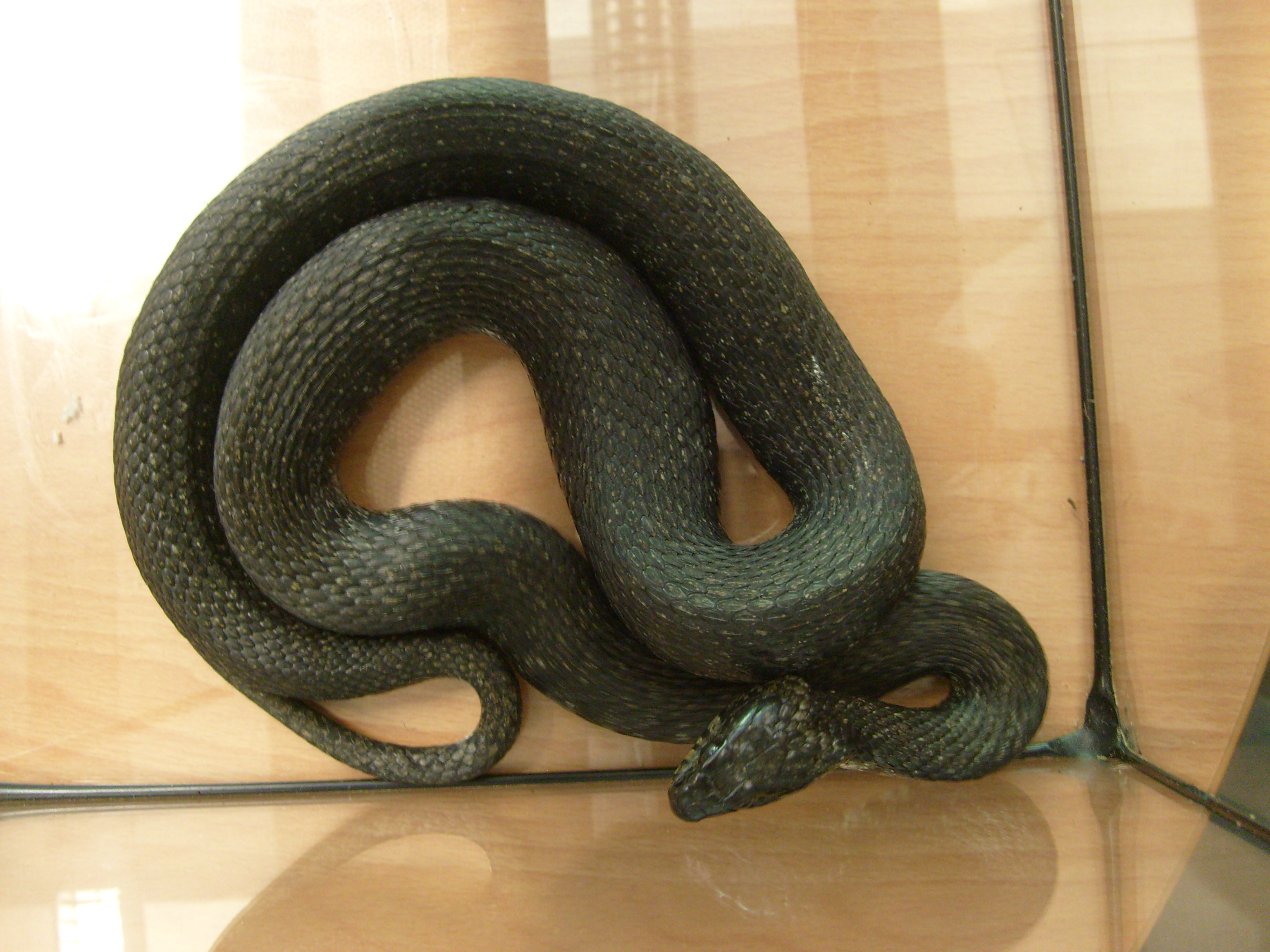 Pregnant female Grass Snake from Bascharage, Luxembourg. This snake is a seldom black individuum of the species (melanism). Photographed at National Museum of Natural History, Luxembourg.